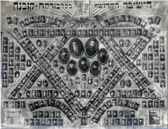 portraits of rabbis and students of the Yeshiva of Vilijampolė (Slobodka)